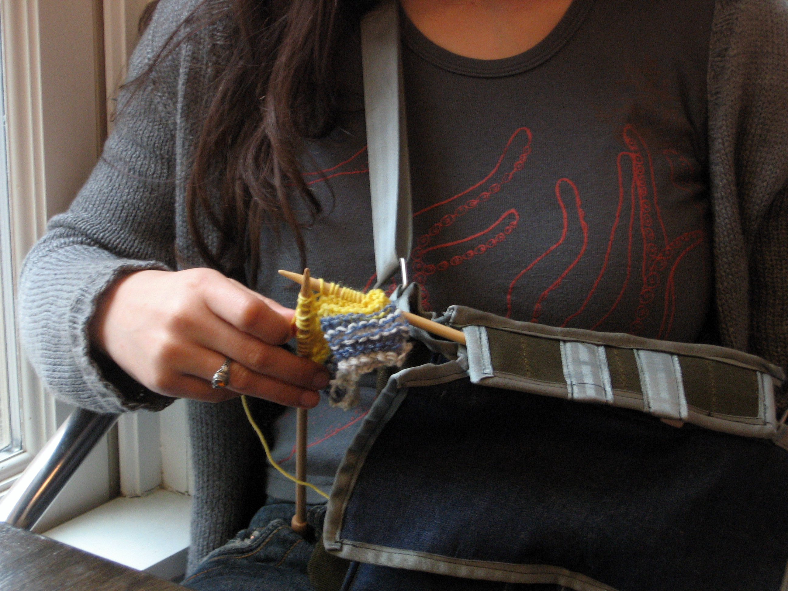 Original caption: indi knit is a tool holder for one-armed crafters to make it easier for them to knit in a more open, social environment. It’s geared toward amputees, stroke victims, and temporarily-disabled knitters looking for a good recovery activity. The holder embraces and stabilizes the needle in much the same way that the user’s non-functioning hand would otherwise. Along with providing the user with a creative outlet, indi knit stores all of the tools and materials needed for knitting by combining the needle holder and a bag with dedicated spaces for scissors, yarn, spare needles, stitch markers, and other tools.